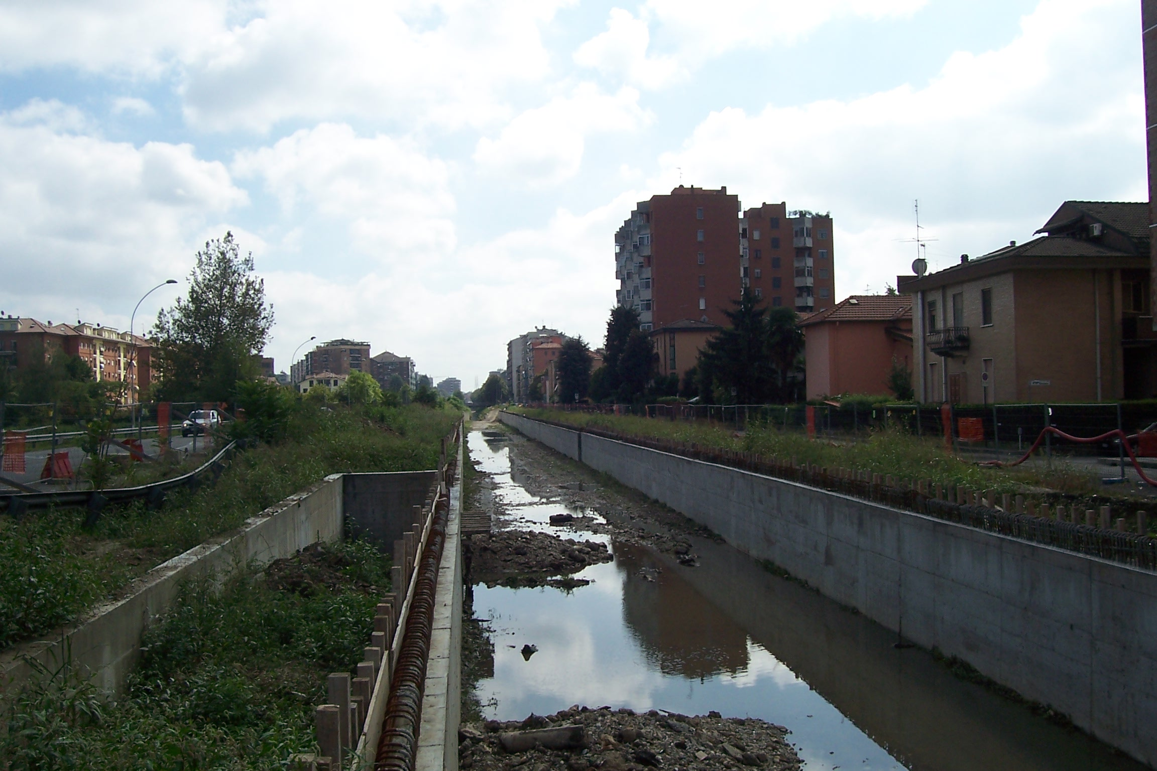 San Giuliano Milanese, Work in progress to covered Redefossi (2010)